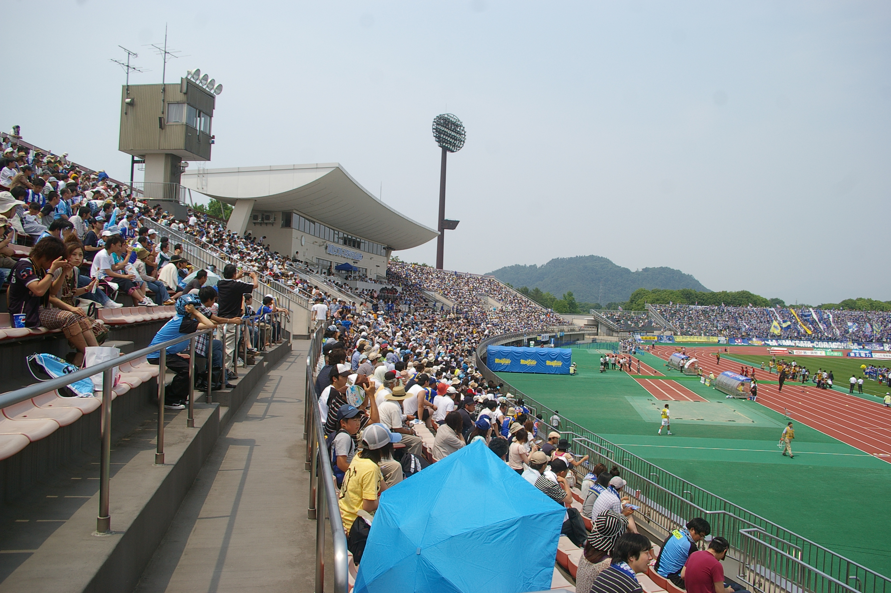 NDsoftstadium.yamagata-ken,tendo-shi